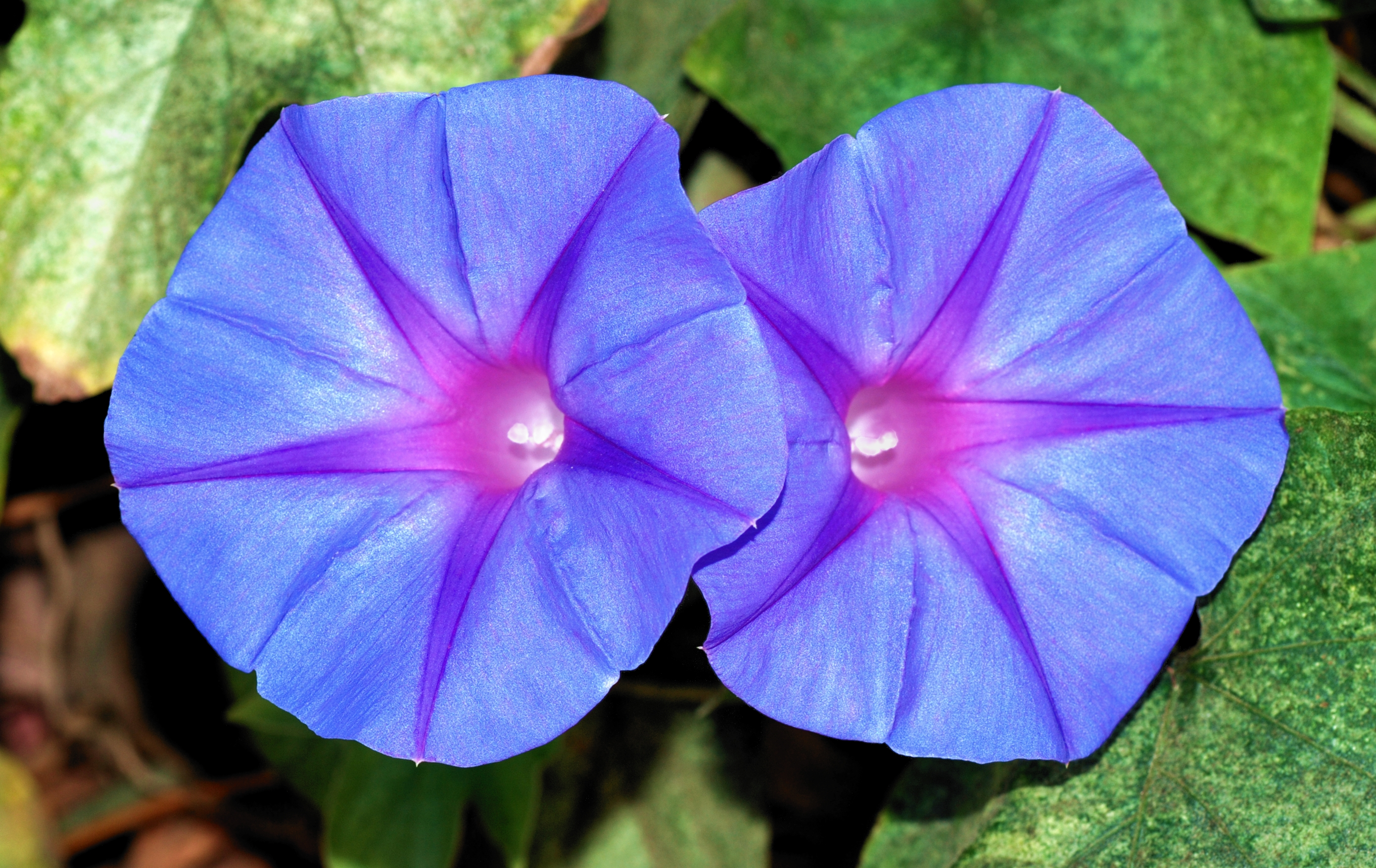 Twin flowers of Ipomoea acuminata